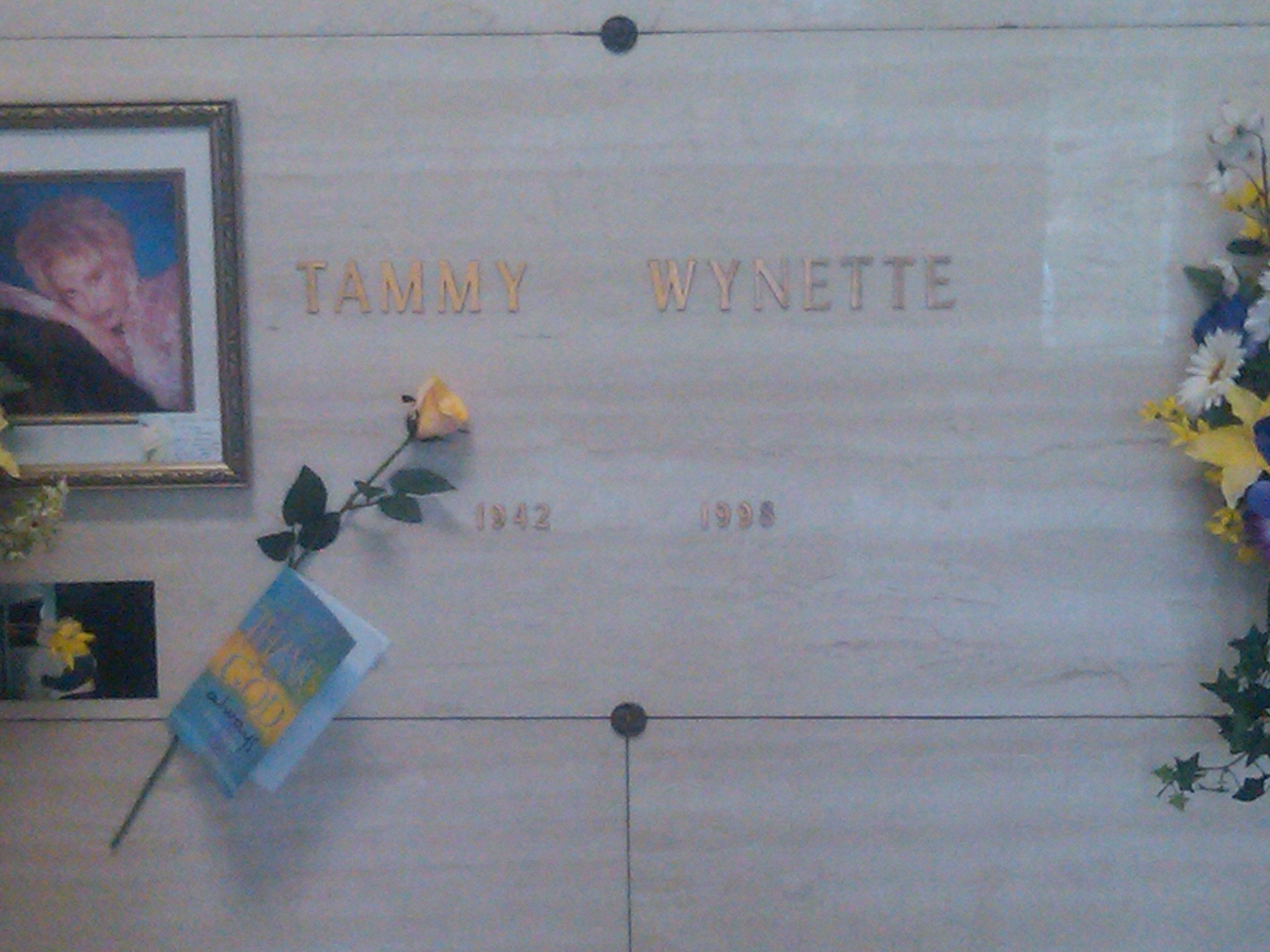 Wynette's final resting place located in the mausoleum of Woodlawn Memorial Park, Nashville, Tennessee